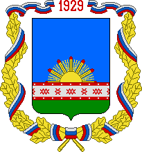 Coat of Arms of Klintsy Raion (Bryansk Oblast, Russia)